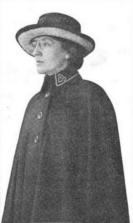 Mrs. Janet Wallace Emrich, Blue Triangle Speaker